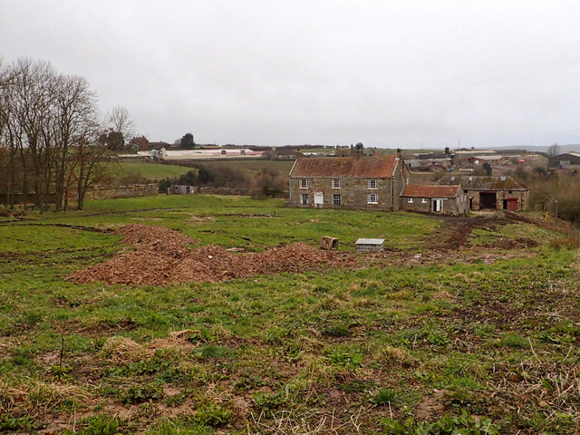 Site of a Cistercian Nunnery and Home to a Dragon